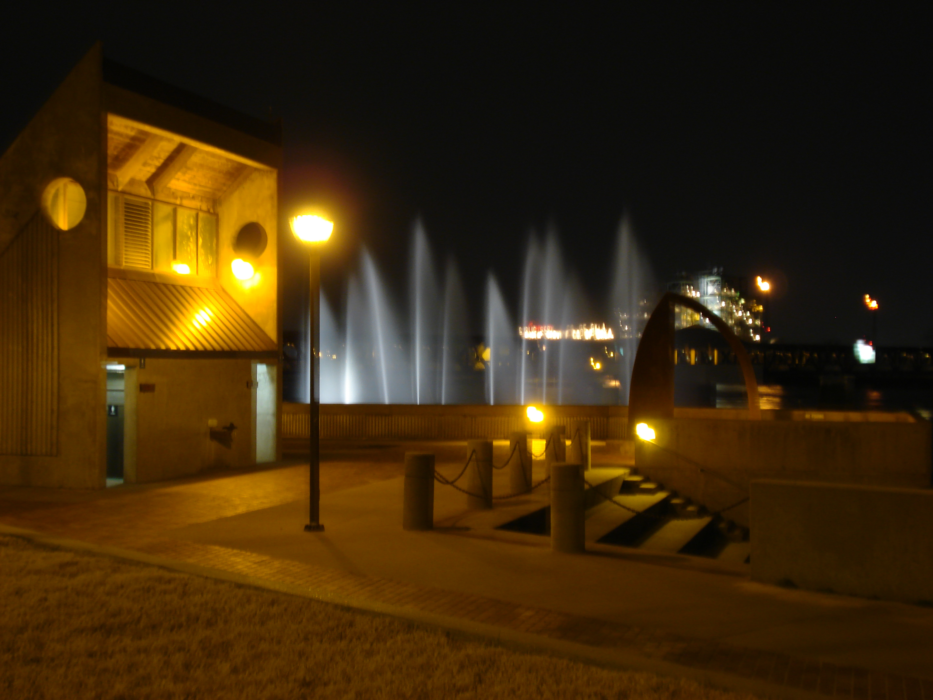 Tulsa River Parks Fountain at Night